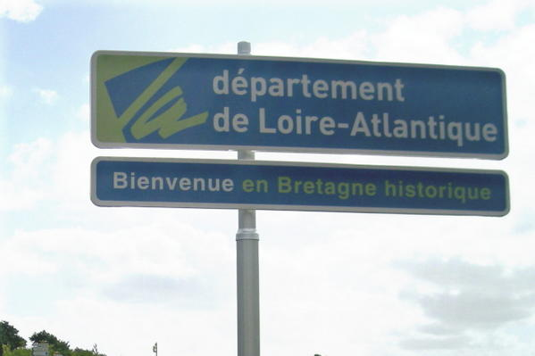 French departement of Loire Atlantique entrance road sign with a lower one which welcomes in the historical Brittany (Loire Atlantique is administratively part of Pays de la Loire region but historically part of Brittany.